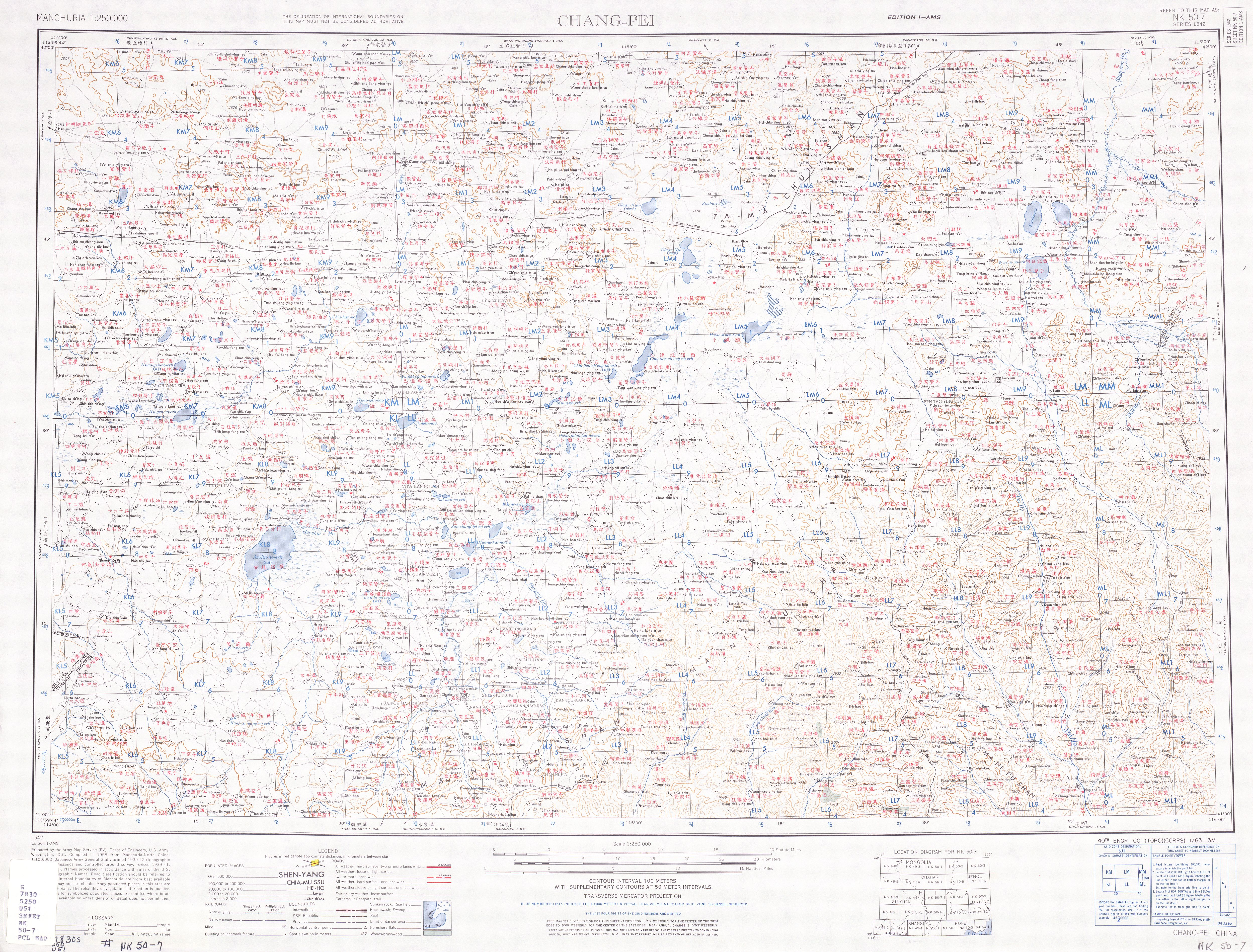 Manchuria AMS Topographic Maps